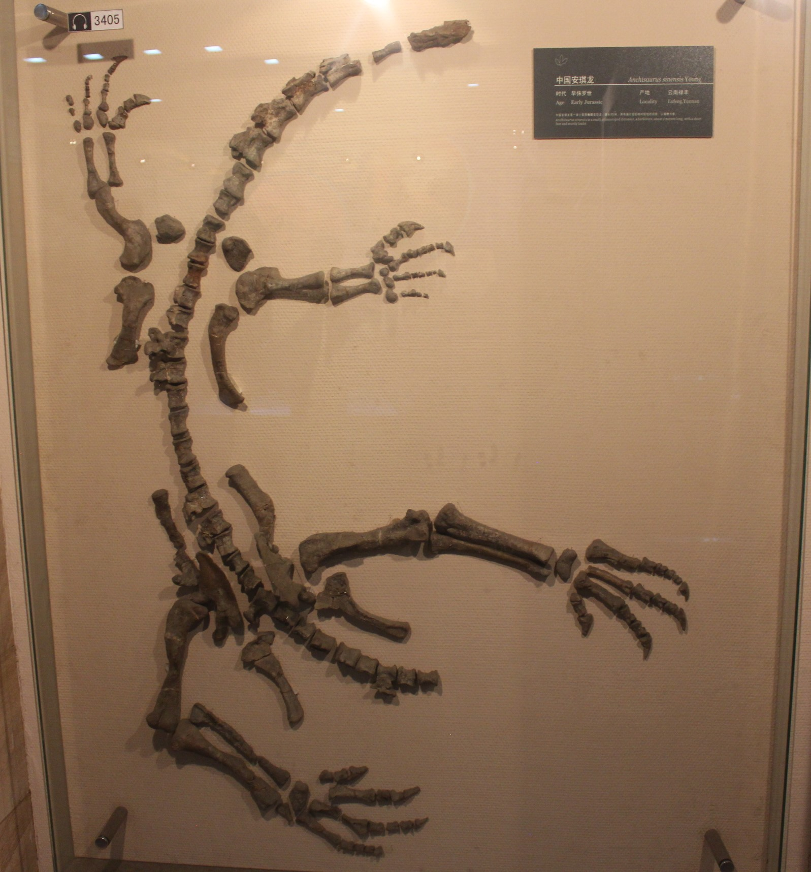 Skeleton of '"Gyposaurus" sinensis on display at the Geological Museum of China.